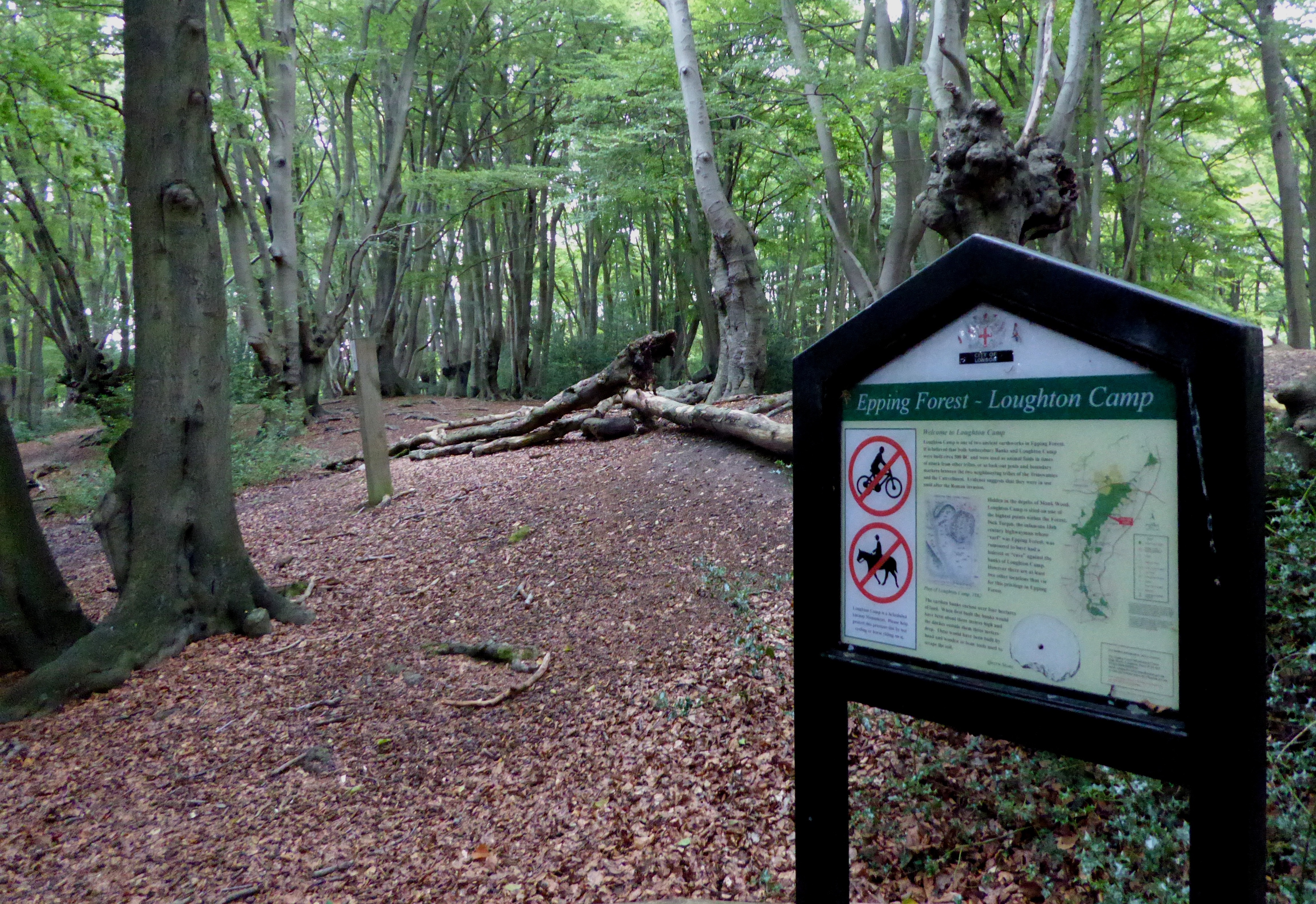 An information post just to the north-west of Loughton Camp in Epping Forest in Essex. The exterior of the fort's northern bank can be seen in this image.